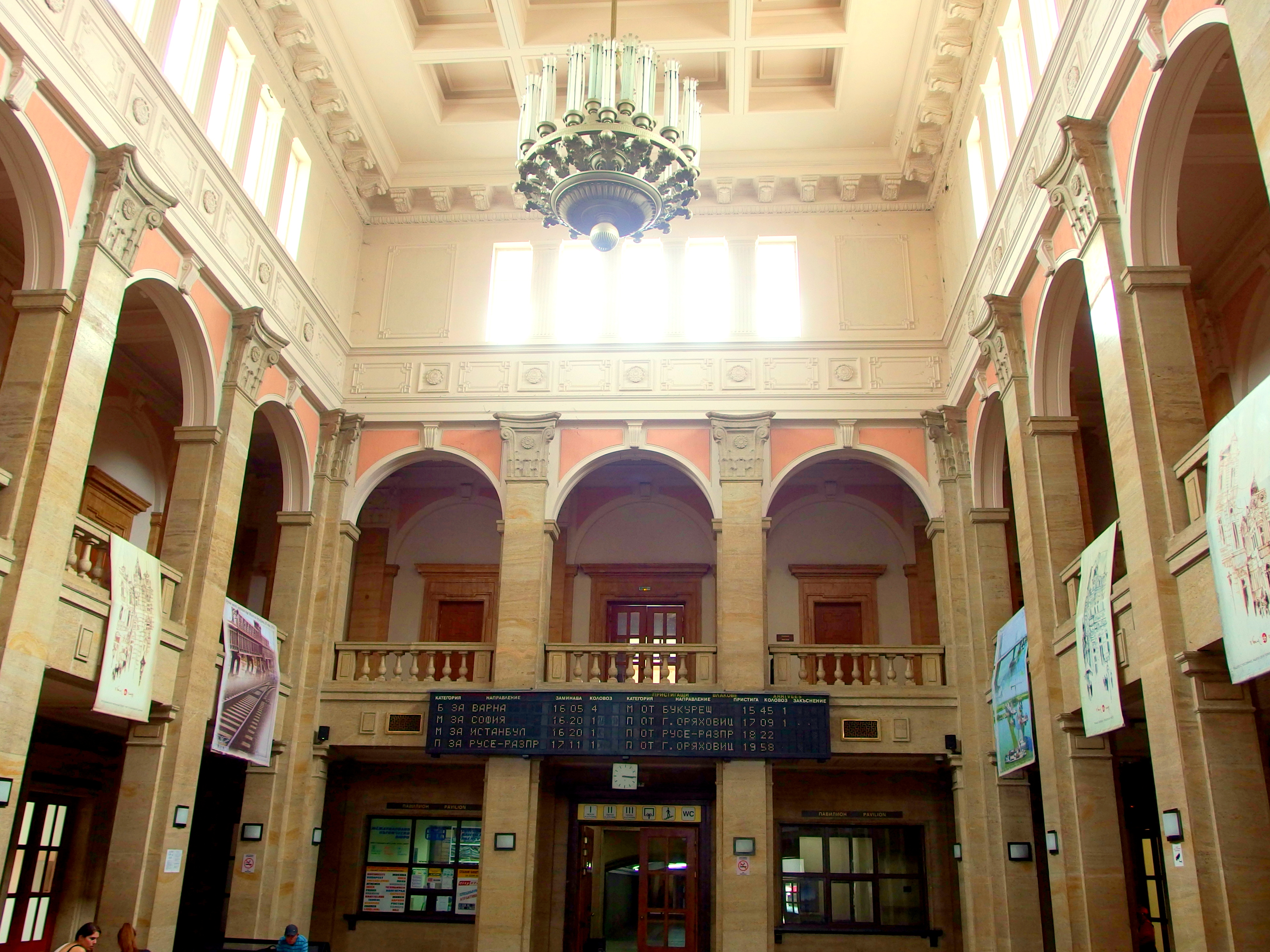 2014-06-25 in Rousse.